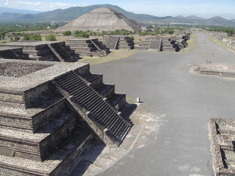 Avenue of the Dead and the Pyramid of the Sun in the background